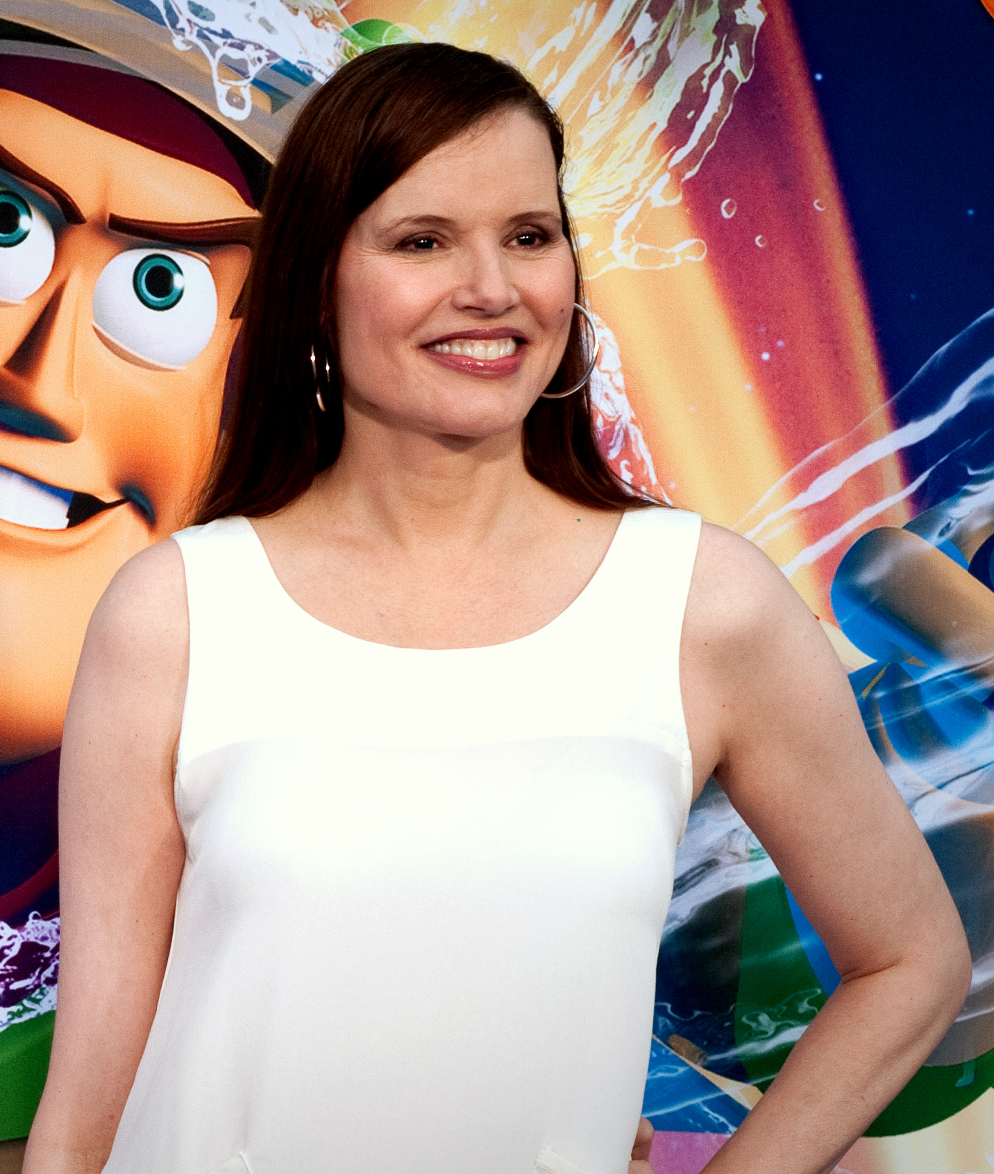 Geena Davis at the World of Color premiere at Disney California Adventure Park, June 2010